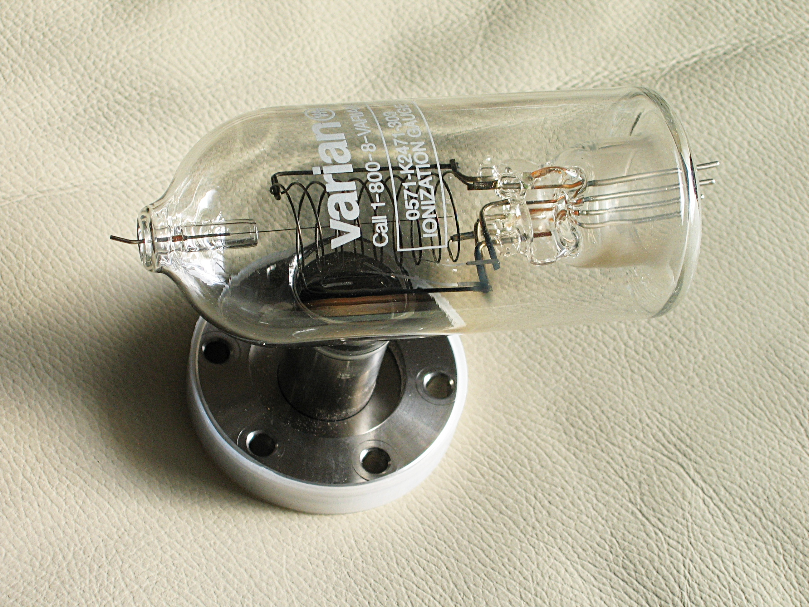 The filament (thoriated iridium) finally burned out after years of service in a MALDI-TOF mass spectrometer. You can see the shadow of the electrodes in the filament deposits on the walls.